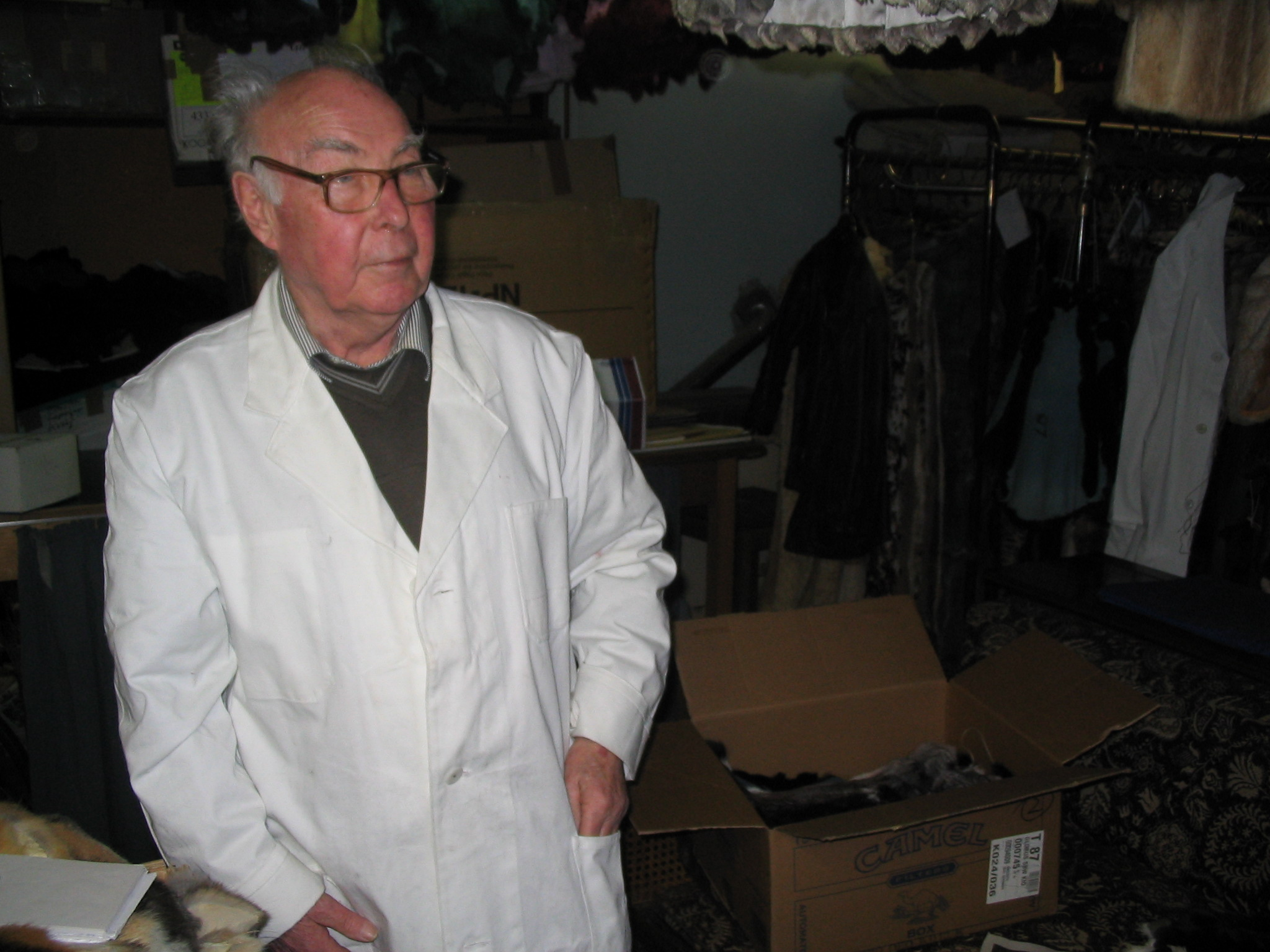 Fur wholesale dealer Wolfgang Czech, Frankfurt, specialist for rabbit skins